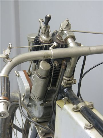 Raleigh 239 cc Schwan 1902 airvent handle.